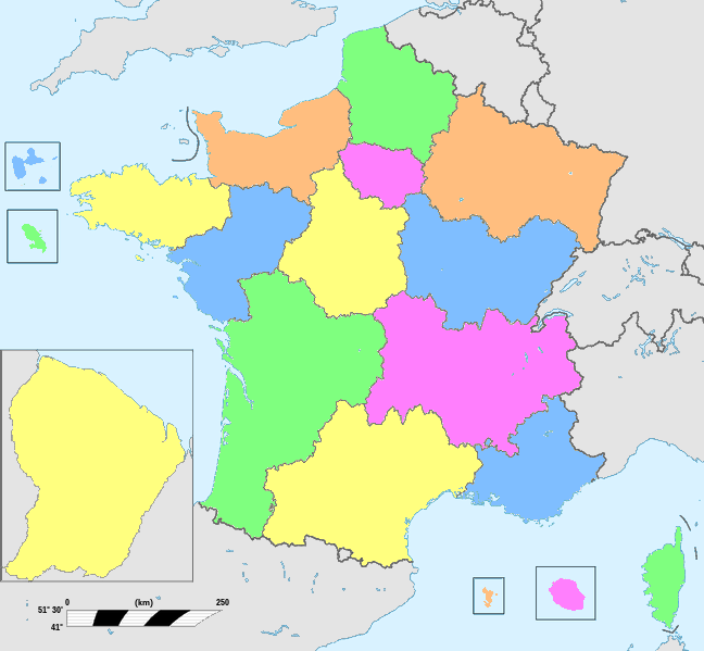 France 18 regions